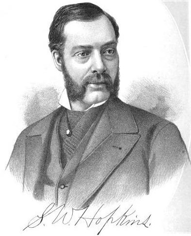 Samuel Whaley Hopkins, lawyer and plitician from Mt Pleasant MI